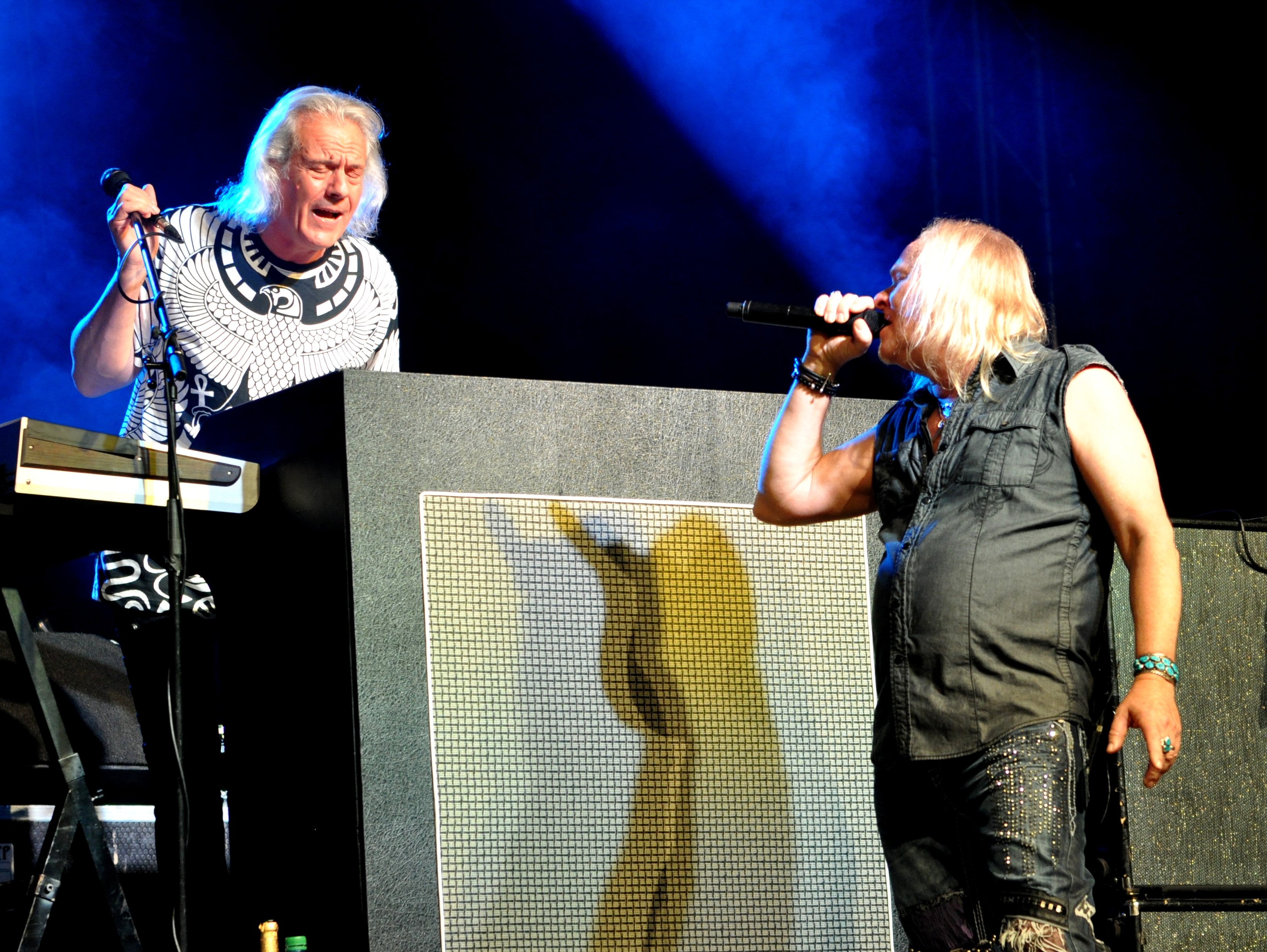 Uriah Heep (GBR) appearance at the 2016 blacksheep festival at Bonfeld castle, Bad Rappenau, Baden-Wuerttemberg, Germany Festivalsommer This photo was created with the support of donations to Wikimedia Deutschland in the context of the CPB project "Festival Summer".